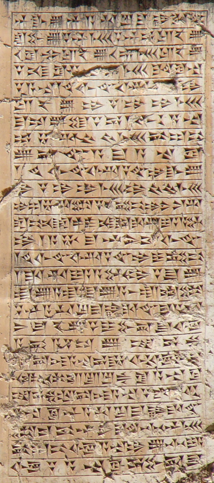 Inscription in Babylonian, in the Xerxes I inscription at Van, 5th century BCE "Ahuramazda is the great god, the greatest god who created the sky and created the land and created humans Who gave prosperity to the humans Who made Xerxes king King of many kings, being the only ruler of the totality of all lands “I am Xerxes, the great king, the king of kings, the king of the lands, king of all the languages, king of the great and large land, the son of king Darius the Achaemenian” The king Xerxes says: “the king Darius, my father, praised be Ahuramazda, made a lot of good, and this mountain, he ordered to work its cliff and he wrote nothing on it so, me, I ordered to write here. May Ahuramazda protect me, with all the gods and so my kingdom and what I have done."